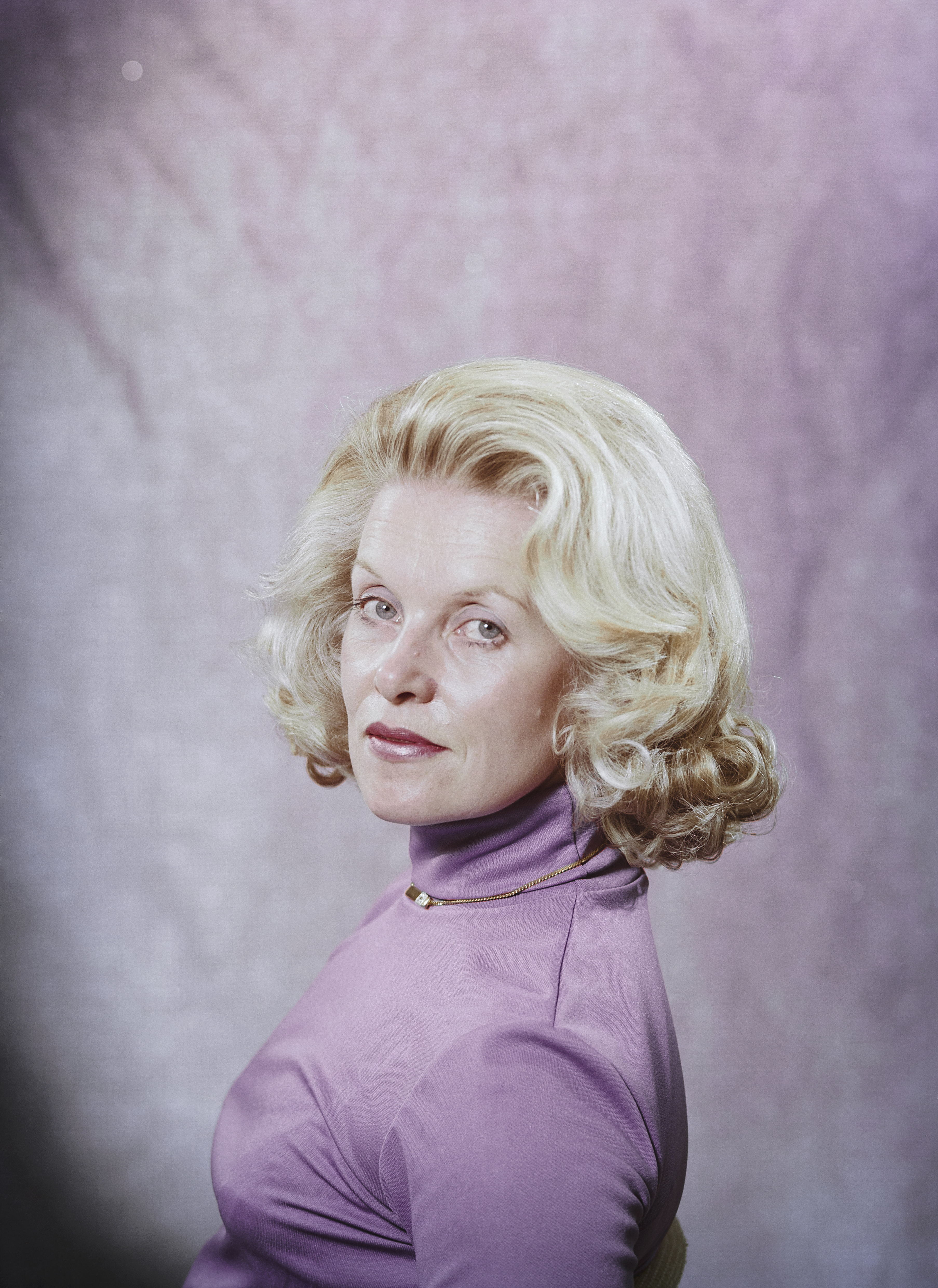 Photograph of the Finnish writer Pirjo Tuominen (1939–).